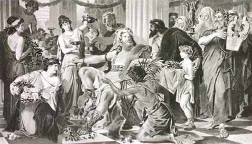 An 1894 photogravure of Alaric I taken from a painting by Ludwig Thiersch.